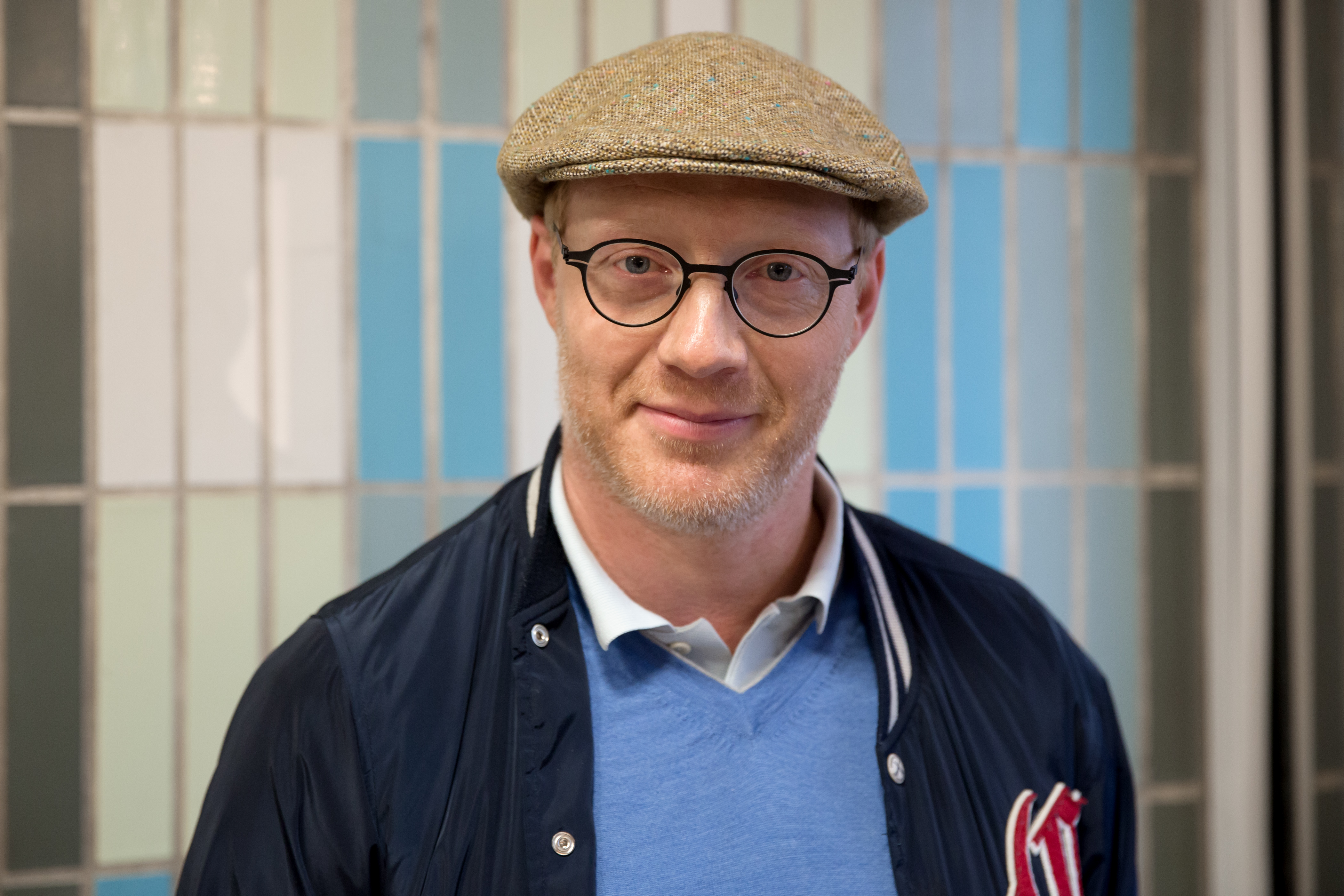 Simon Schwarz, leading actor in the movie Everything Will Be Okay, at the opening of the film festival Vienna Independent Shorts 2015 at Gartenbaukino in Vienna, Austria.